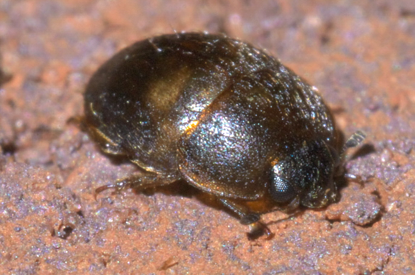 Amphicrossus ciliatus, Family: Sap-feeding Beetles, ID Confidence: 87